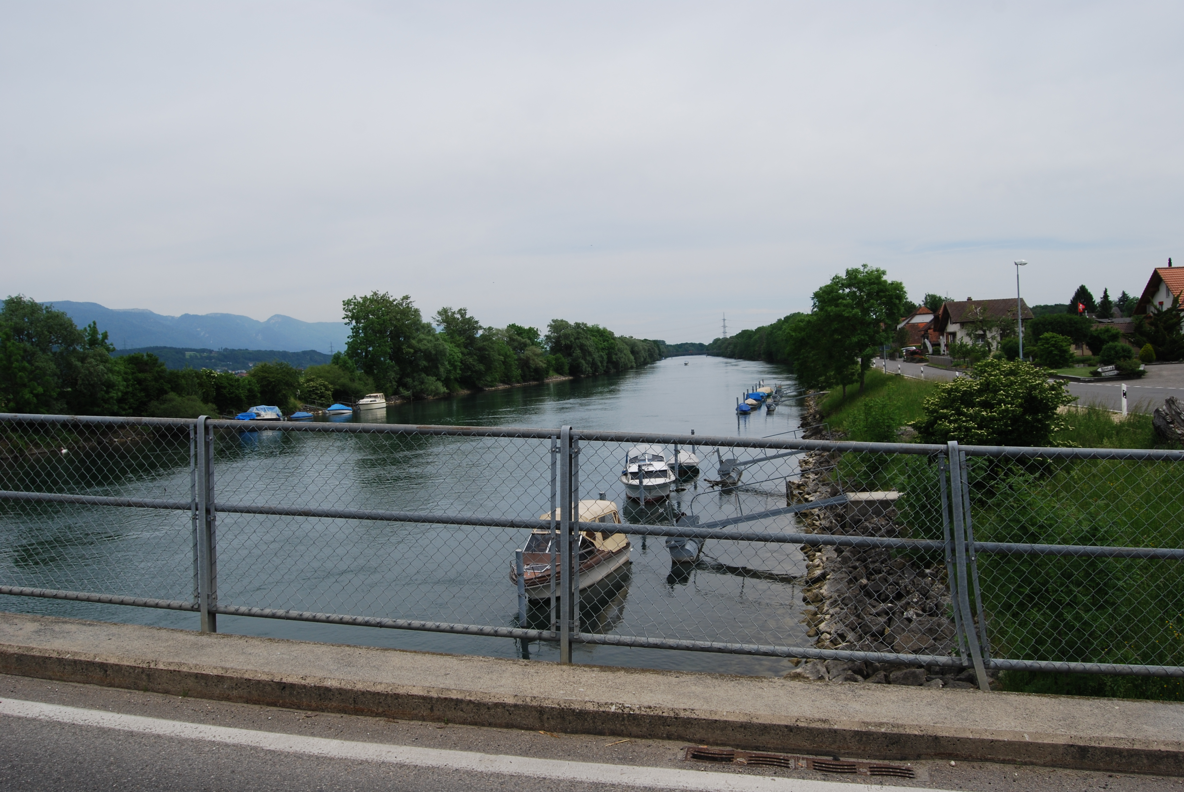 Bridge over the Nidau-Büren-Canal between Orpund and Scheuren, canton of Bern, Switzerland